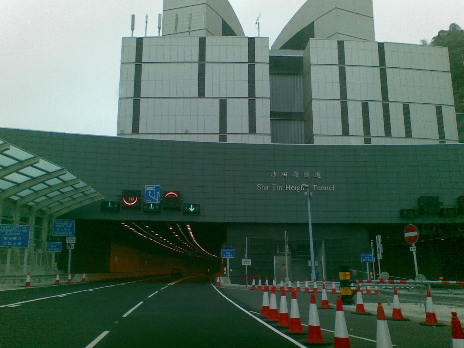 Shatin Heights Tunnel, northern portal